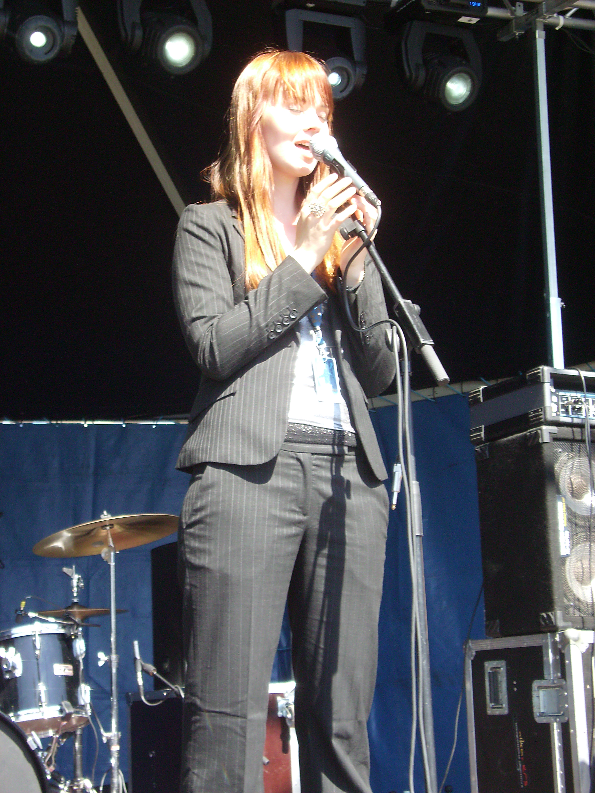 Johanna Kurkela in PowerPark